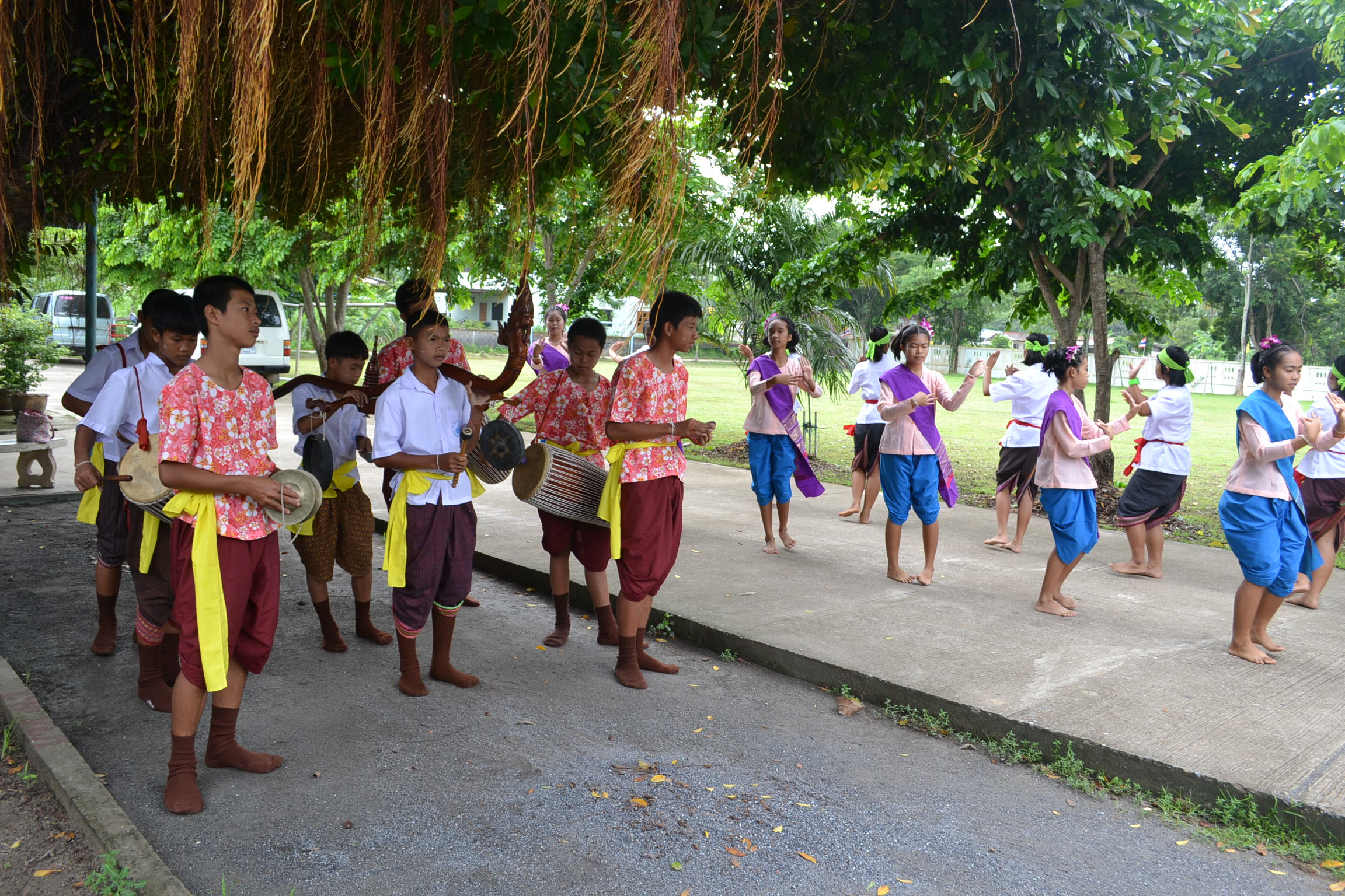 MANGKALA TRADITIONAL FOLK PROCESSION BAND at Phitsanulok Province, Thailand.) Date2014SourceOwn workAuthor ผู้สร้างสรรค์ผลงาน/ส่งข้อมูลเก็บในคลังข้อมูลเสรีวิกิมีเดียคอมมอนส์ - เทวประภาส มากคล้าย Permission (Reusing this file)